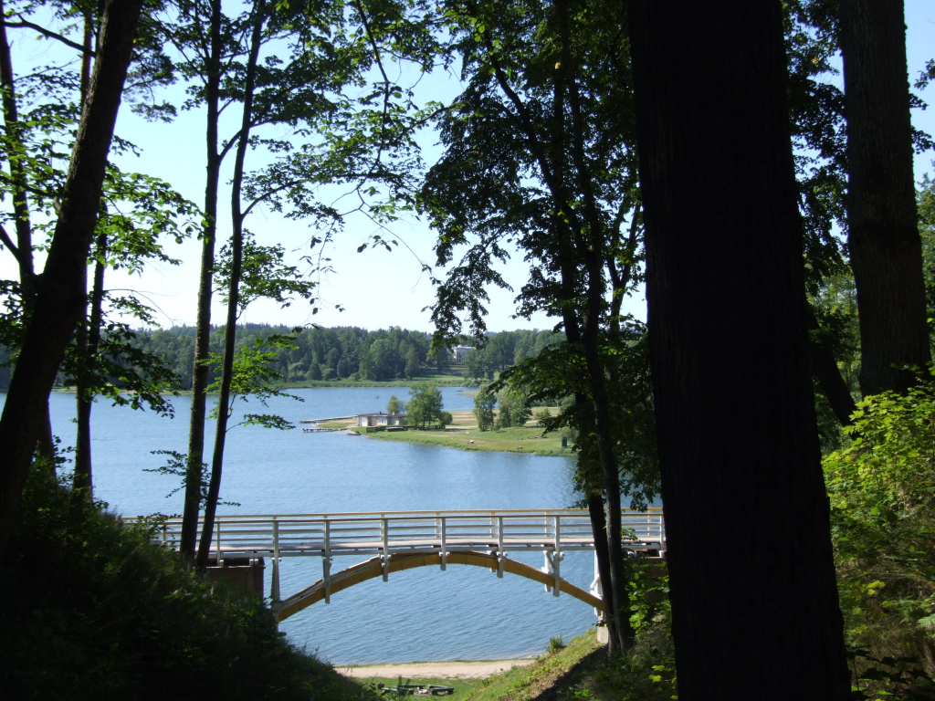 The sun brigde in Alūksne, Lettland